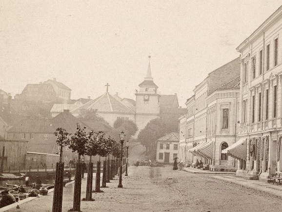 Arendals andre kirke, kalt Trefoldighetskirken som dagens kirke